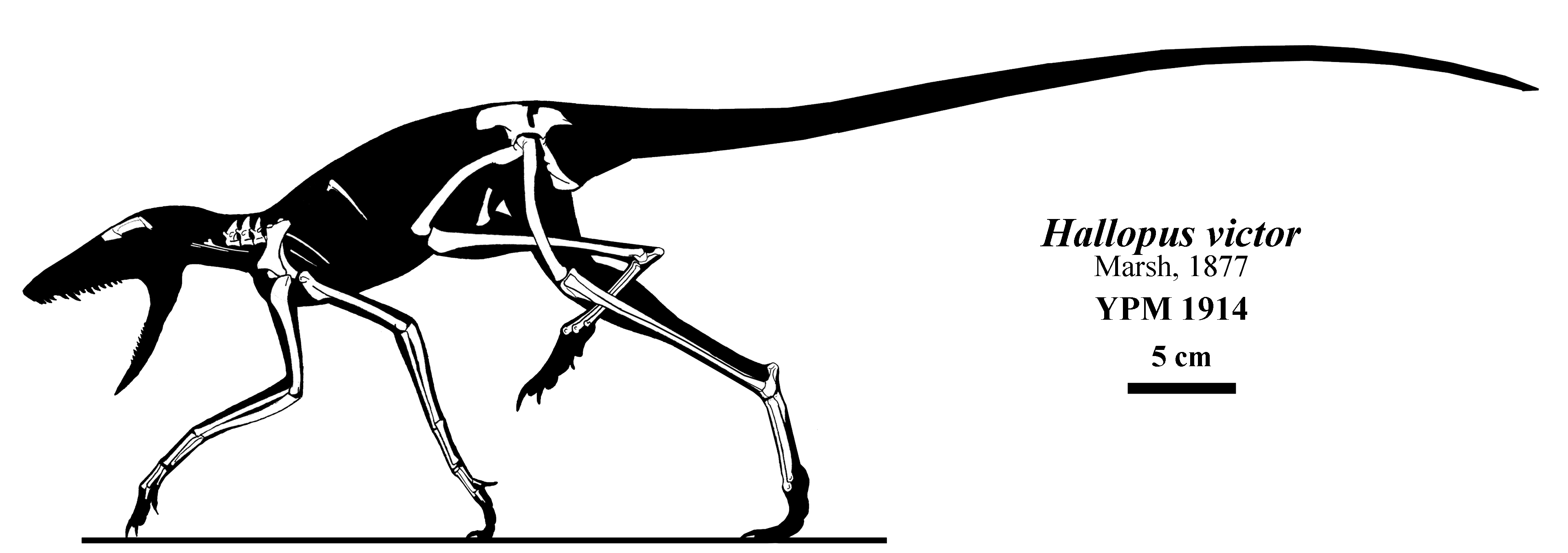 Skeletal reconstruction of Hallopus victor.